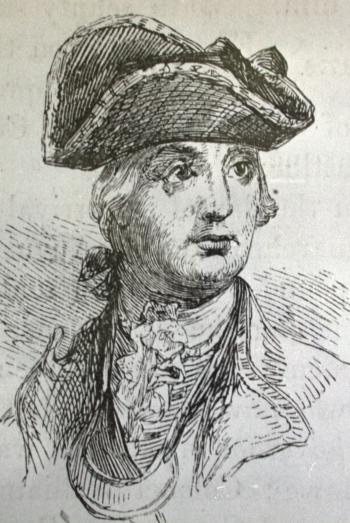 Robert Howe (1732-1786)